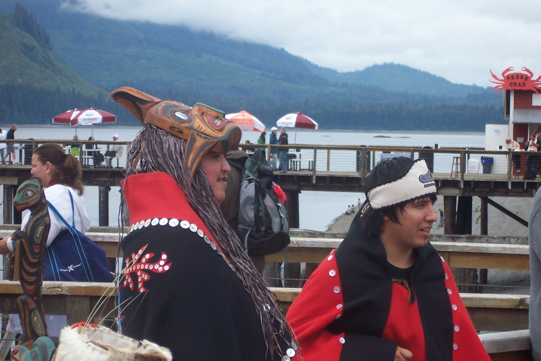 Appropriately garbed presenters and other items indicate the culture of the Tlingit people during a visit by cruise ship passengers at the Icy Strait Point destination in Alaska.